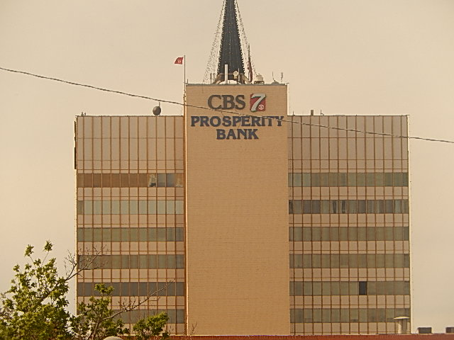 I took photo of Prosperity Bank building in Odessa, TX, with Nikon camera.